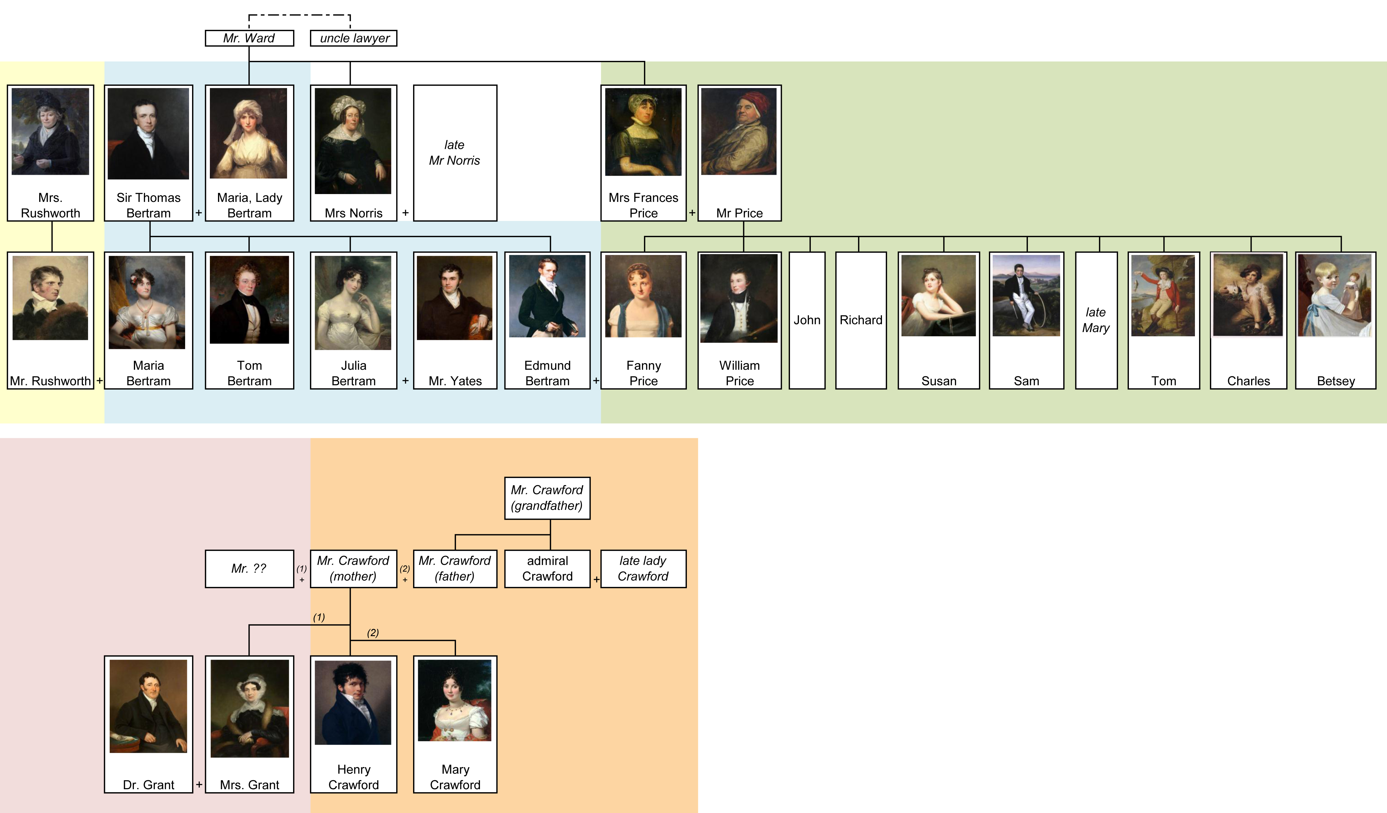 Mansfield Park family tree Using PD-art portraits of unknown people of 1780-1810s